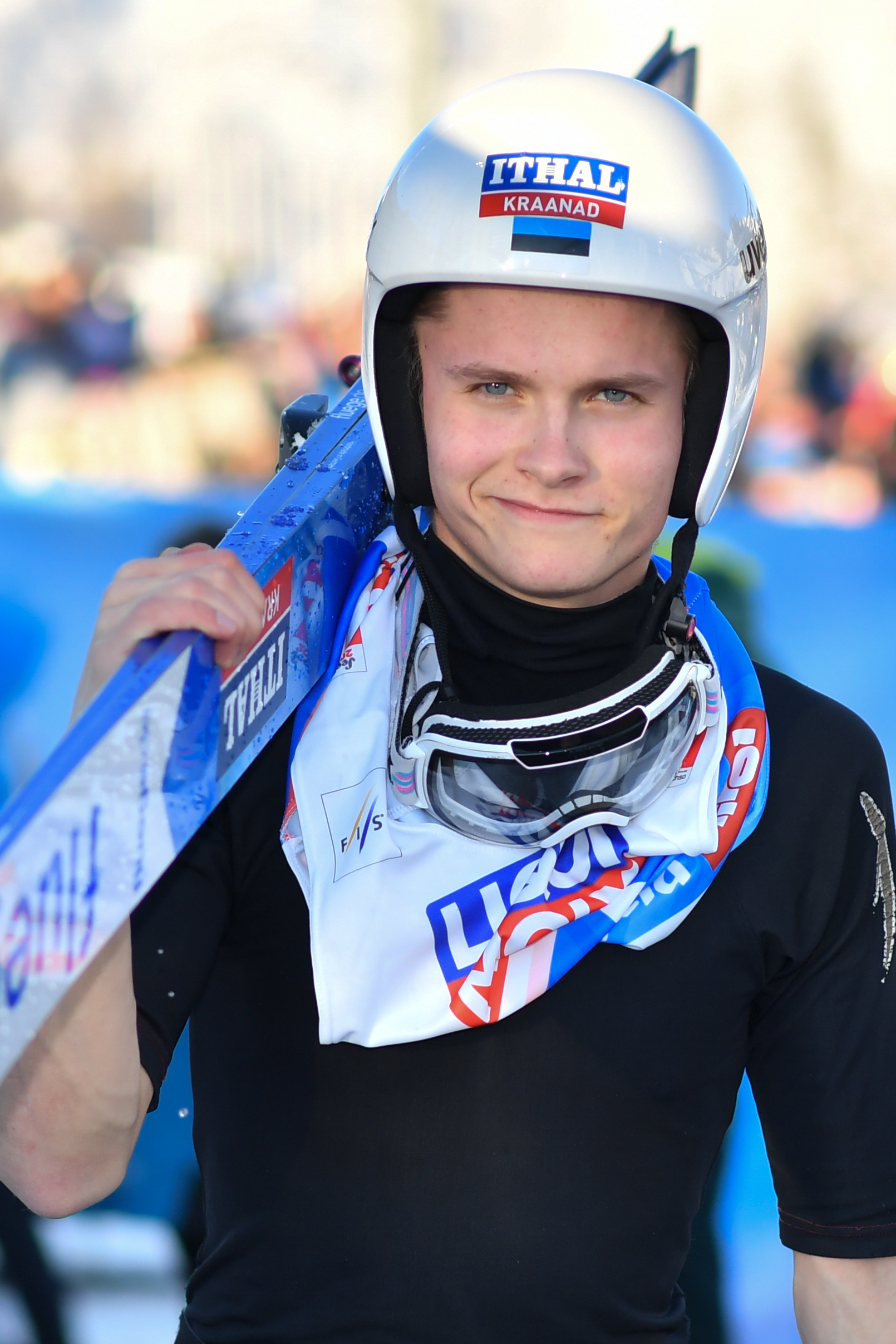 Seefeld, February 28, 2019: FIS Nordic World Ski Championships, Ski Jumping Qualification.